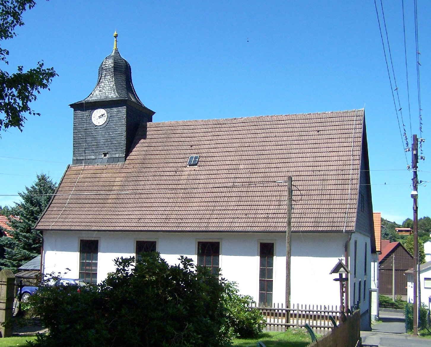 The church Jakobuskirche in Fischbach (Emsetal).